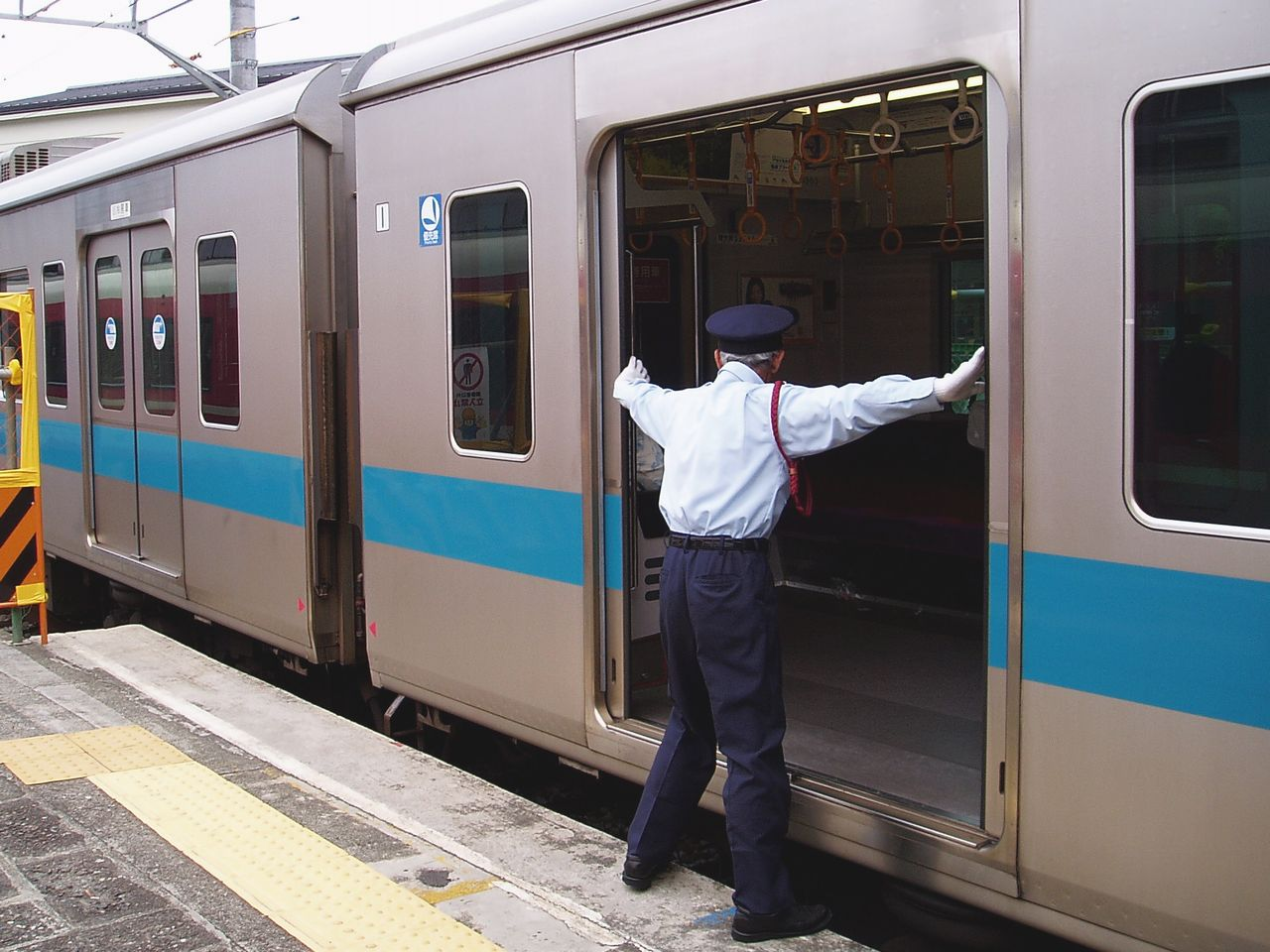 Train doors used to be opened and closed by hand at Kazamatsuri Station of Hakone Tozan Railway